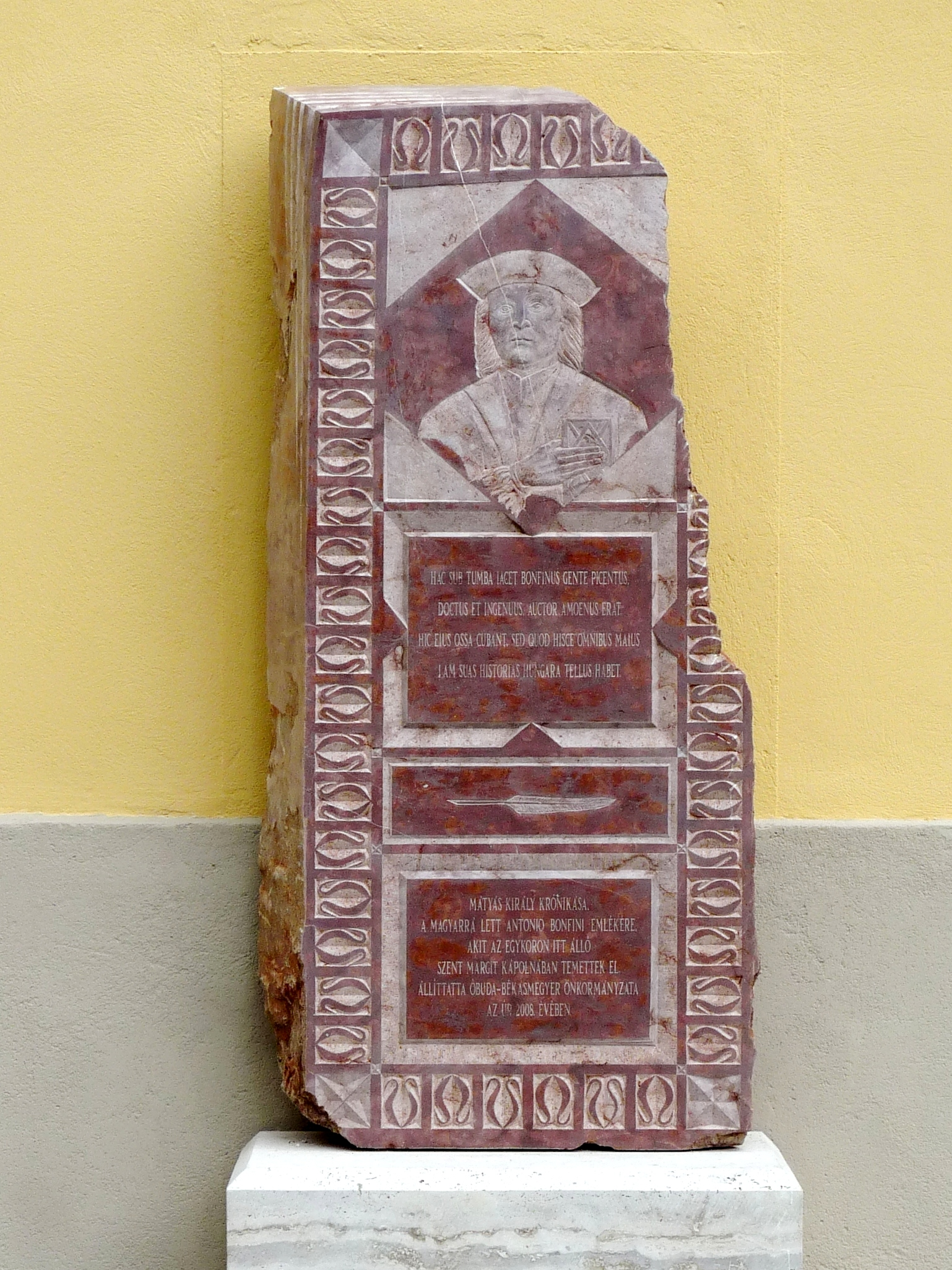 Commemorative plaque of Antonio Bonfini (1427[?]-1502) located on the south side of the church of Saint Peter and Saint Paul in Óbuda (Hungary). Relief carved of red limestone. Author: János Seres. Inscription : IN MEMORY OF ANTONIO BONFINI KING MATTHIAS' CHRONICLER, BECAME HUNGARIAN, WHO WAS BURIED IN THE CHAPEL OF ST. MARGARET DRAWN IN THE OLD DAYS THIS PLACE.